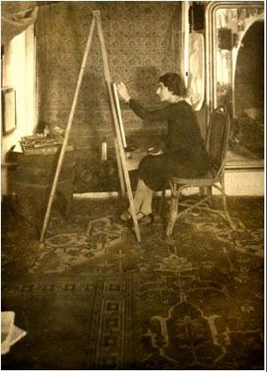 Ketevan Magalashvili. Paris. 1923